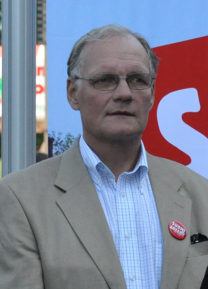 Finnish Police Director General Mikko Paatero at the SuomiAreena 2009 event in Pori, Finland.